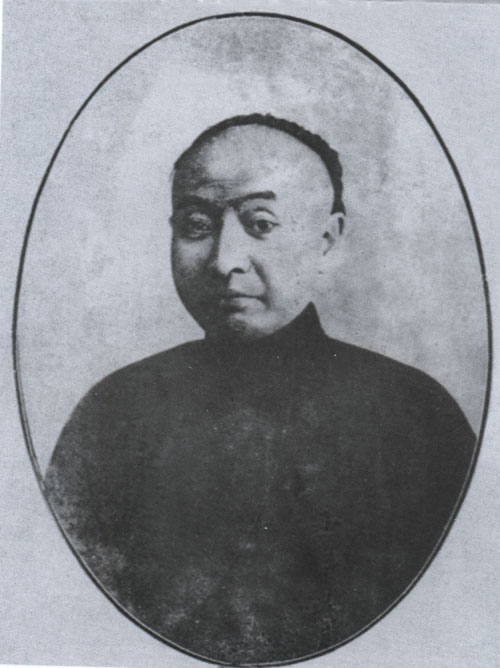 Rao Zhixiang, politician of the Qing Dynasty.